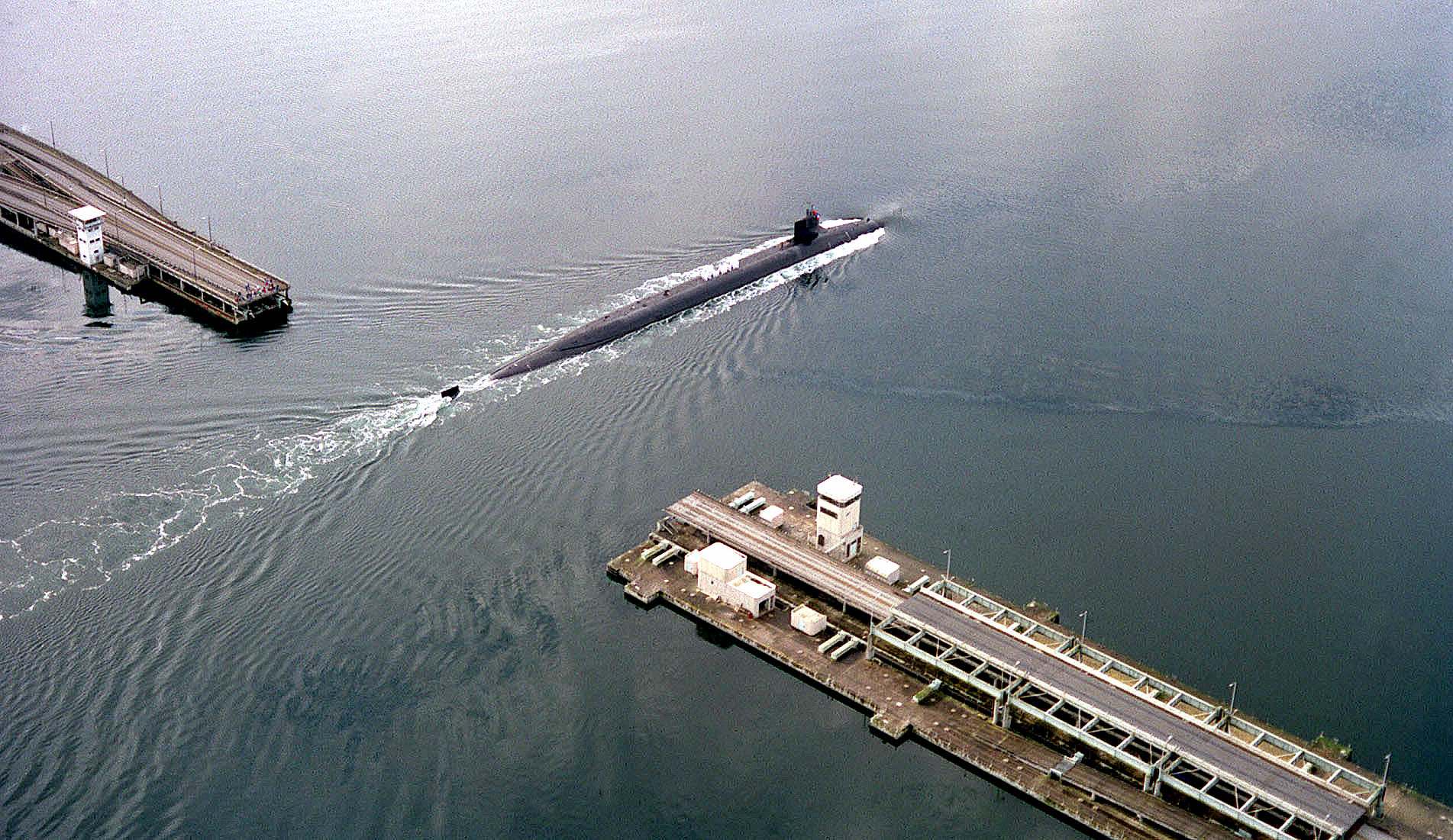 The Ohio Class Trident Ballistic Missile Submarine, USS OHIO (Blue) (SSBN 726), manuevers through Hood Canal Bridge returning to her homeport in Bangor, Washington. The OHIO is the first Trident submarine to tally 50 strategic patrols.Location: BANGOR, WASHINGTON (WA) UNITED STATES OF AMERICA (USA)